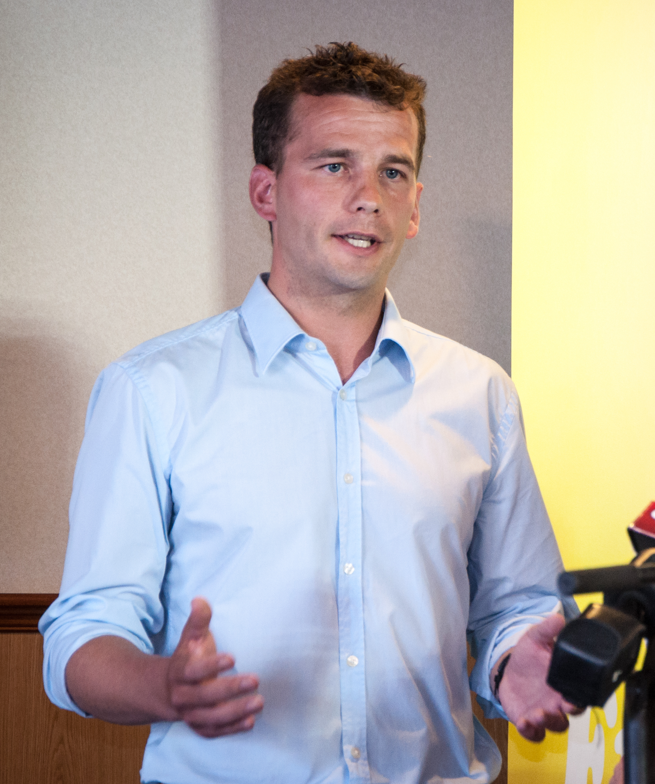 Cropped version of a photo showing both David Seymour and Jamie Whyte at the ACT Selection Announcement for Leader and Epsom in February 2014 taken by Mathmo. Original description: "Was taken by myself with a Nikon D90 (I happened to live just around the corner, saw it mentioned on Twitter by journalists so popped across to take a few pics as I fancy myself to be a bit of a keen photographer :-P ). This is from the announcement for the press by ACT of their new candidates (Whyte and Seymour), on Great South Road in Epsom."